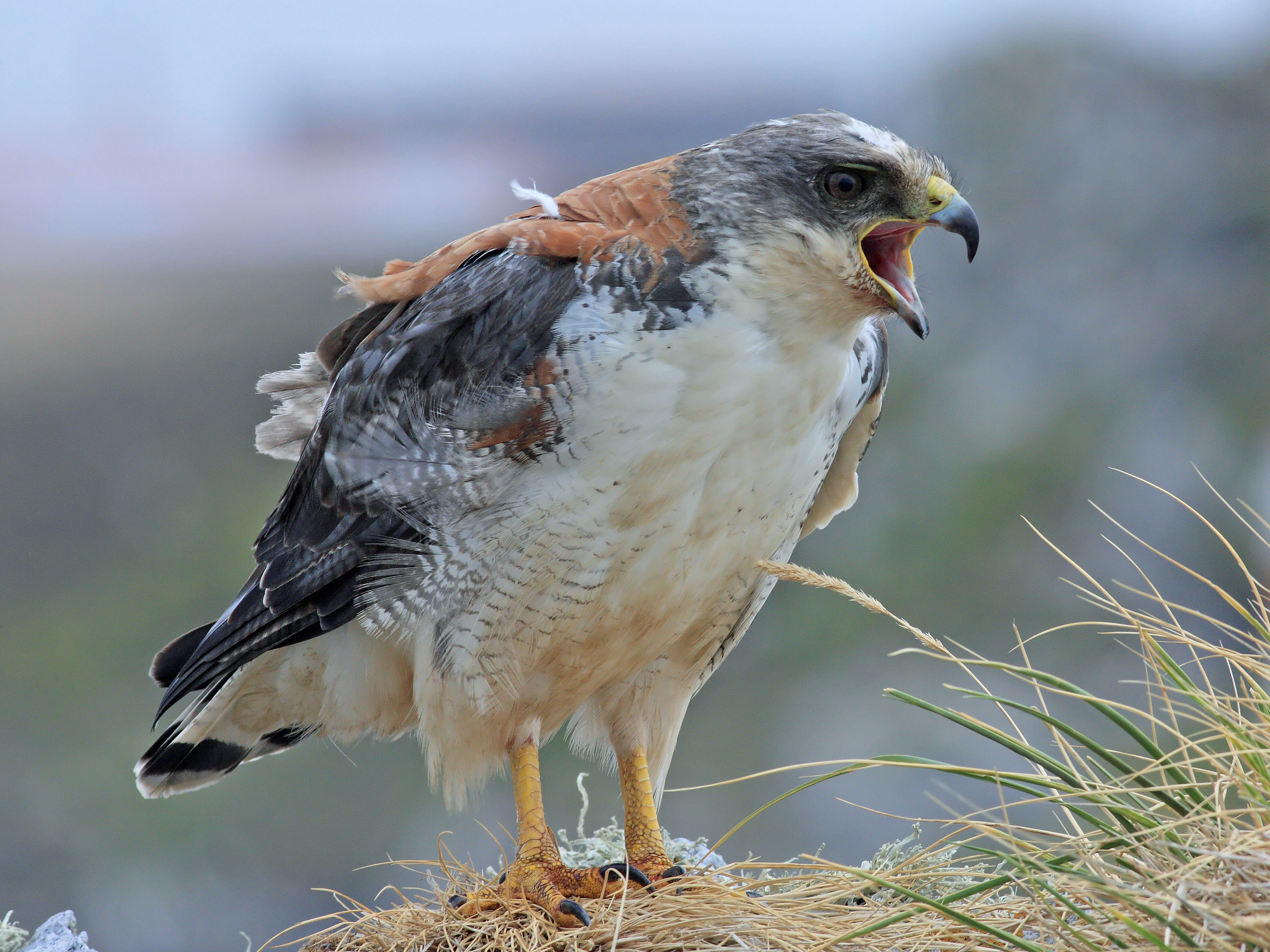 A female Red-backed Hawk photographed at Tussac Point on the East Falkland Island